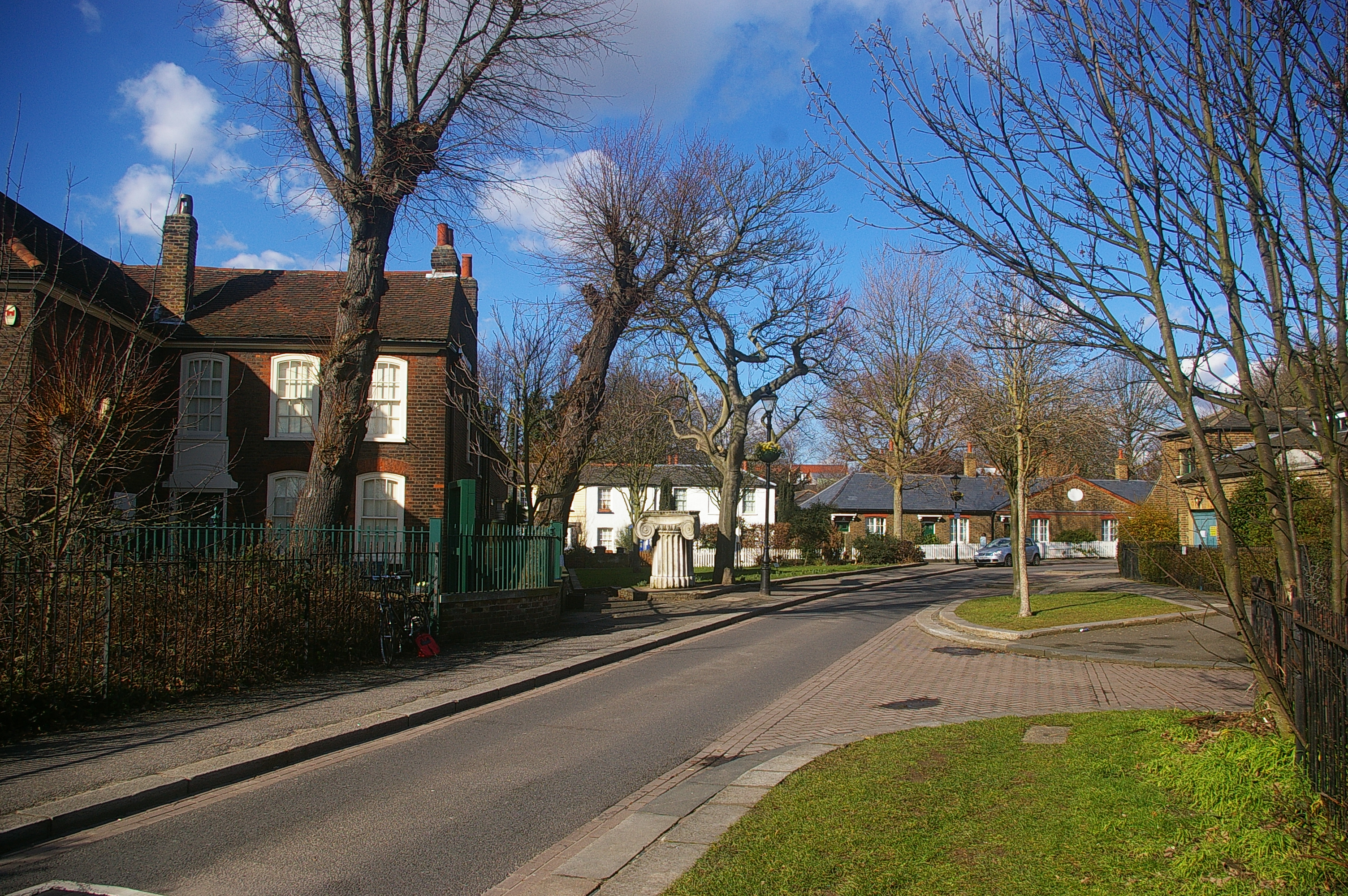 Vestry Road, Walthamstow, London E17 View of Vestry Road, old Walthamstow. On the left of the image is Vestry House Museum, outside of which is an Ionic capital (a relic of London's GPO building demolished in 1912. On the right the former National Schools building (1819), at the far end the Squires Almshouses (1795).